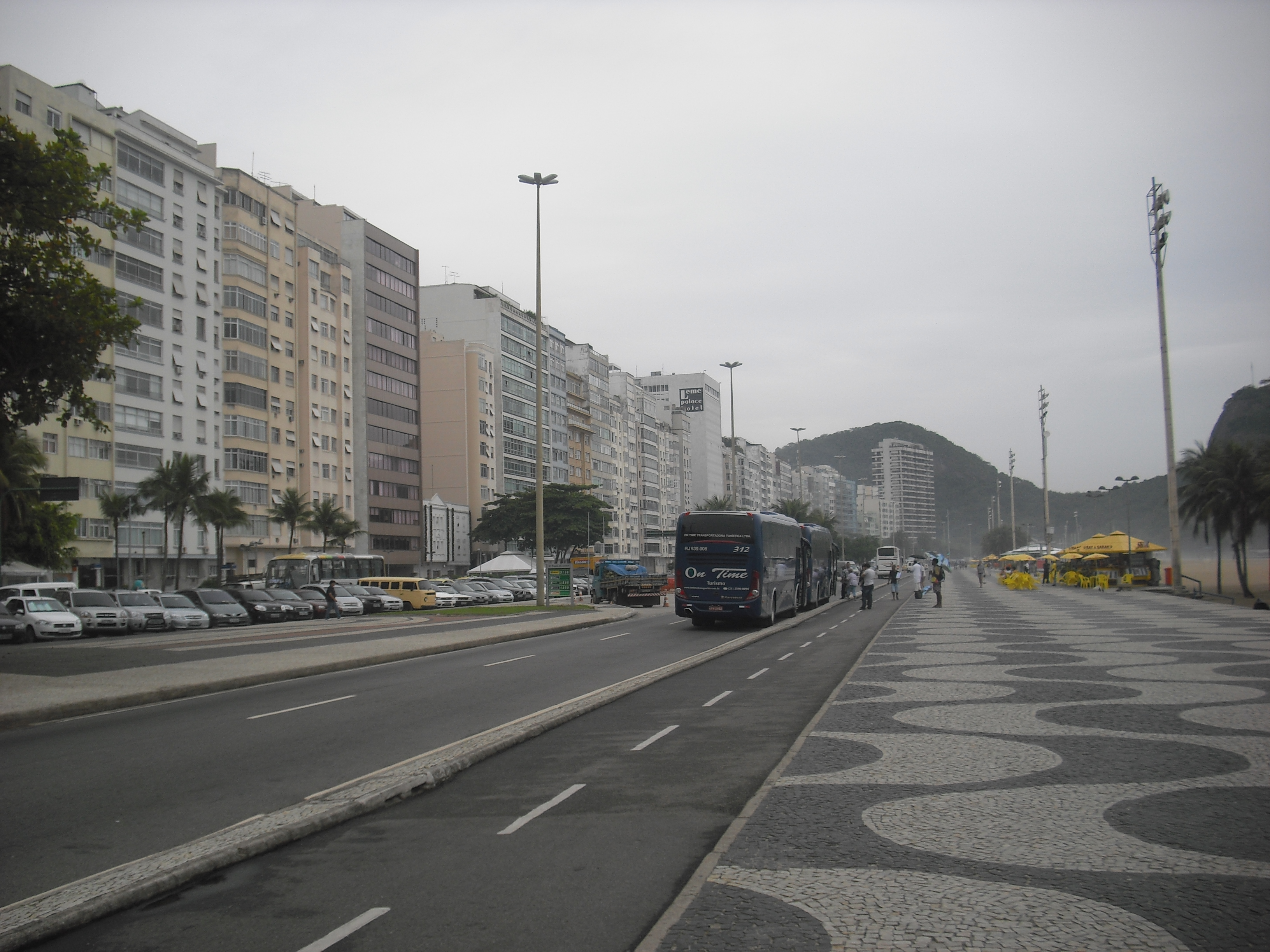 Avenida Atlantica, in Leme, Rio de Janeiro, Brazil.